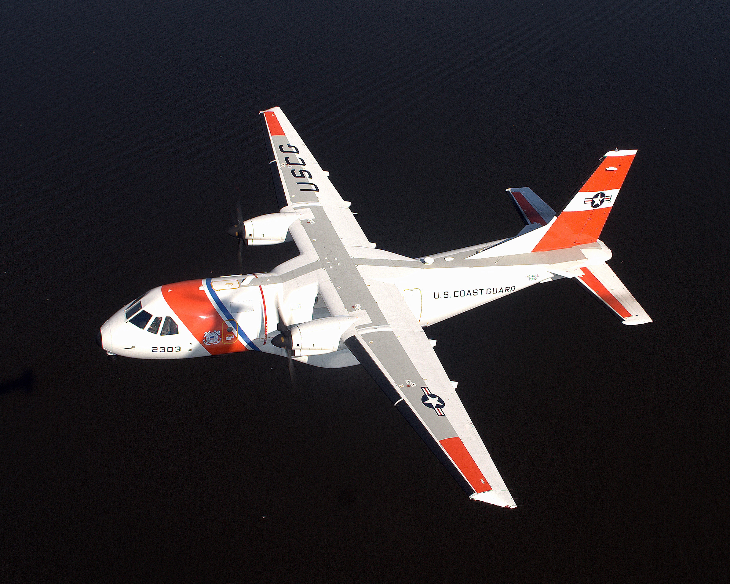 U.S. Coast Guard HC-144A Ocean Sentry (CASA CN-235-300 MP Persuader).